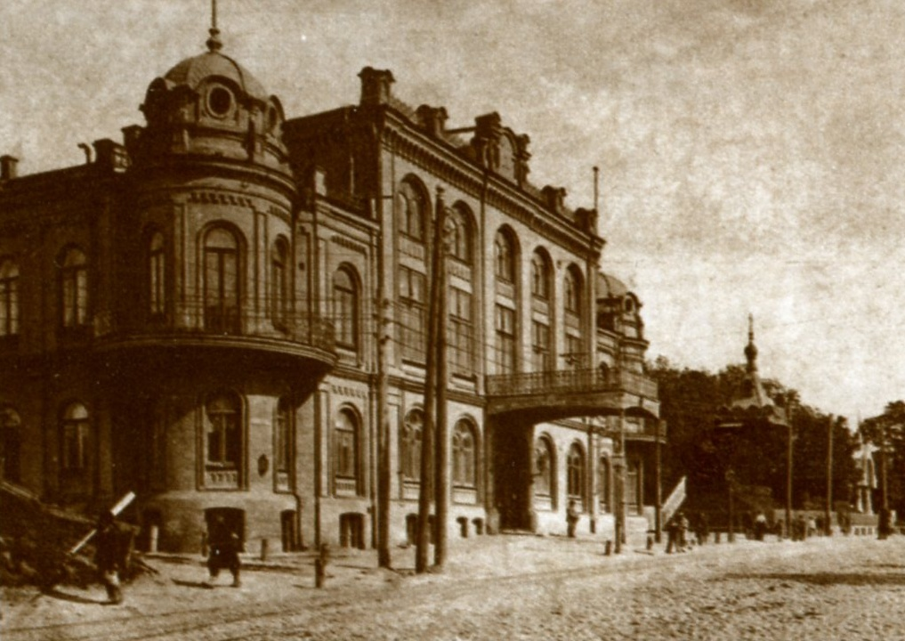 Kupec'ke zibranja. Now National Philharmonic Society of Ukraine.